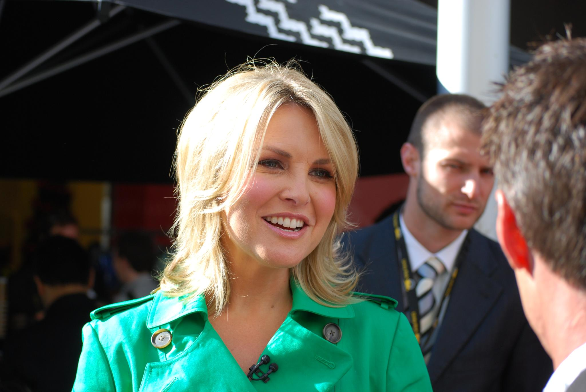 The Today team have galloped into Melbourne to kick off festivities for the biggest racing event on the social calendar, the 2009 Melbourne Cup Carnival. To celebrate the Carnival, TODAY is broadcasting LIVE from Bourke Street Mall this Thursday and Friday. Karl and Lisa, along with Cam, Georgie, Richard, Steve and Richard Reid, are bringing all the fun, fashion and excitement of TODAY to the streets of Melbourne. .au/